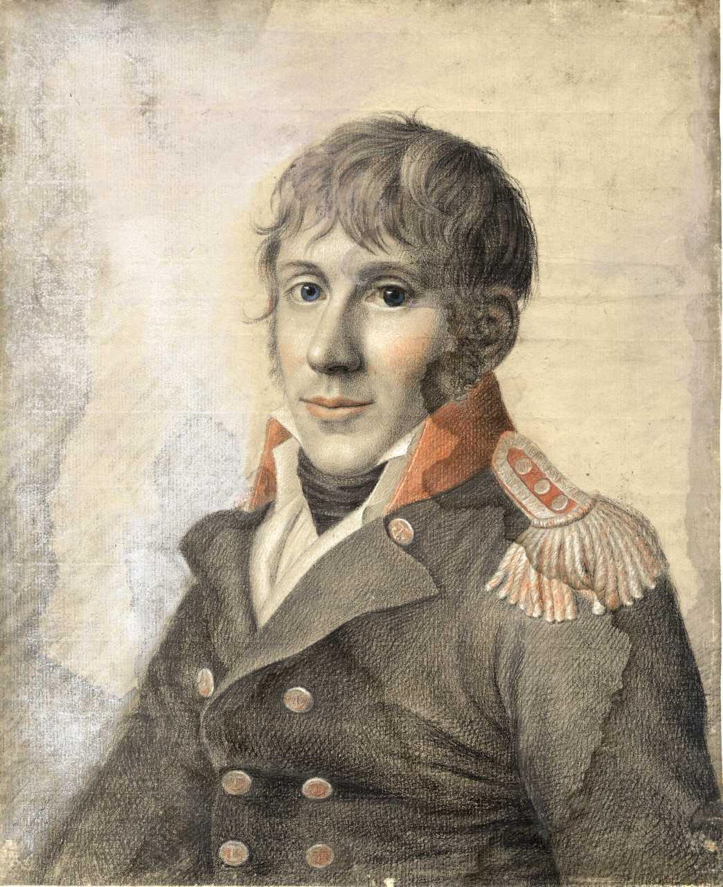 Christian Wulff, 1777-1843, Danish navel officer